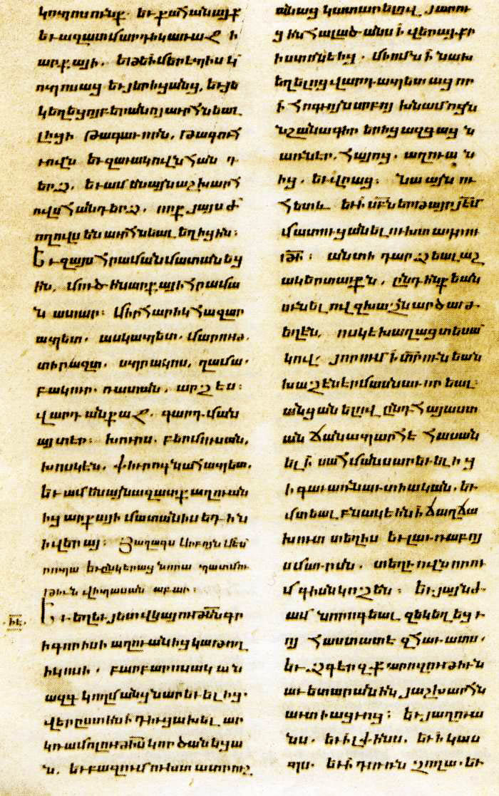 Constitution of Aghven of King Vachagan the Pious (5th century, Nagorno Karabakh), part of M.Kaghankatvatsi's "History of the Land of Aghvank." Written in Old Armenian. Public release of Matenadaran Institute of ancient manuscripts.